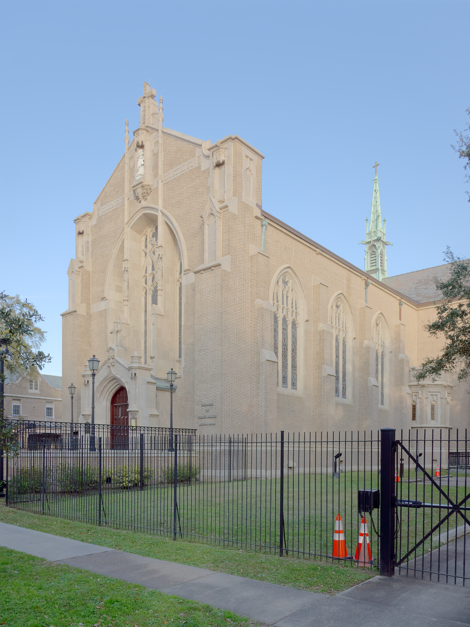 Ursuline Academy, New Orleans, LA, U.S.A. campus chapel / Shrine of Our Lady of Prompt Succor seen from State St. February 9, 2019